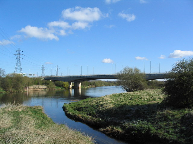 Fairham Brook entering the Trent The Fairham Brook can be traced south over some 30 miles, with its headwaters originating near Old Dalby.